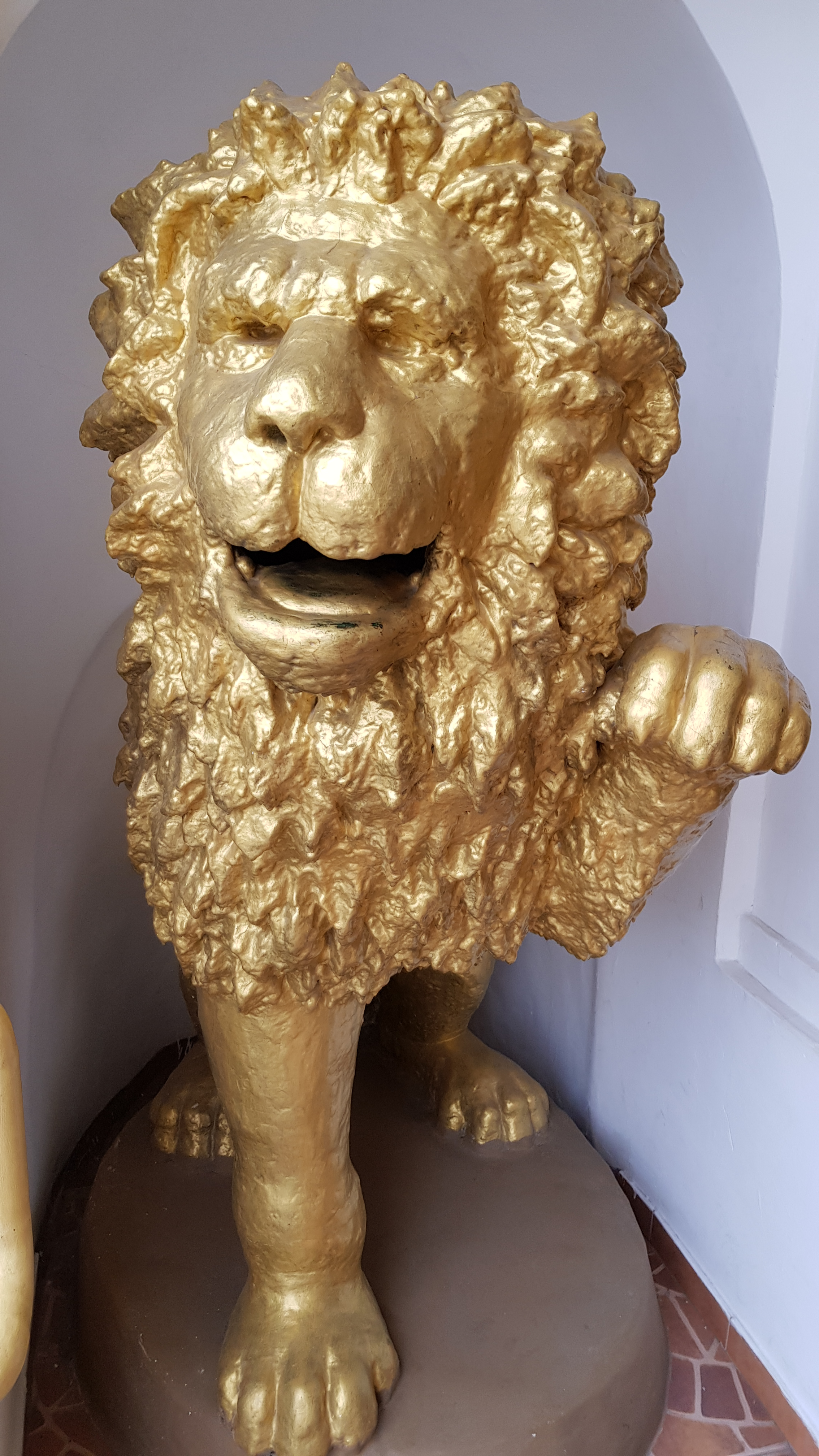 Lion at the entrance to the building of the akimat of the West Kazakhstan region, author sculptor Kalentiev